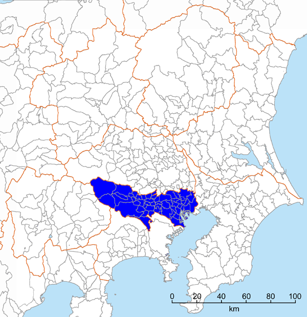 Map of the Tokyo Metropolis, one of the various definitions of Tokyo/Kanto. The map omits Izu/Ogasawara Islands, which is also the part of the metropolis.